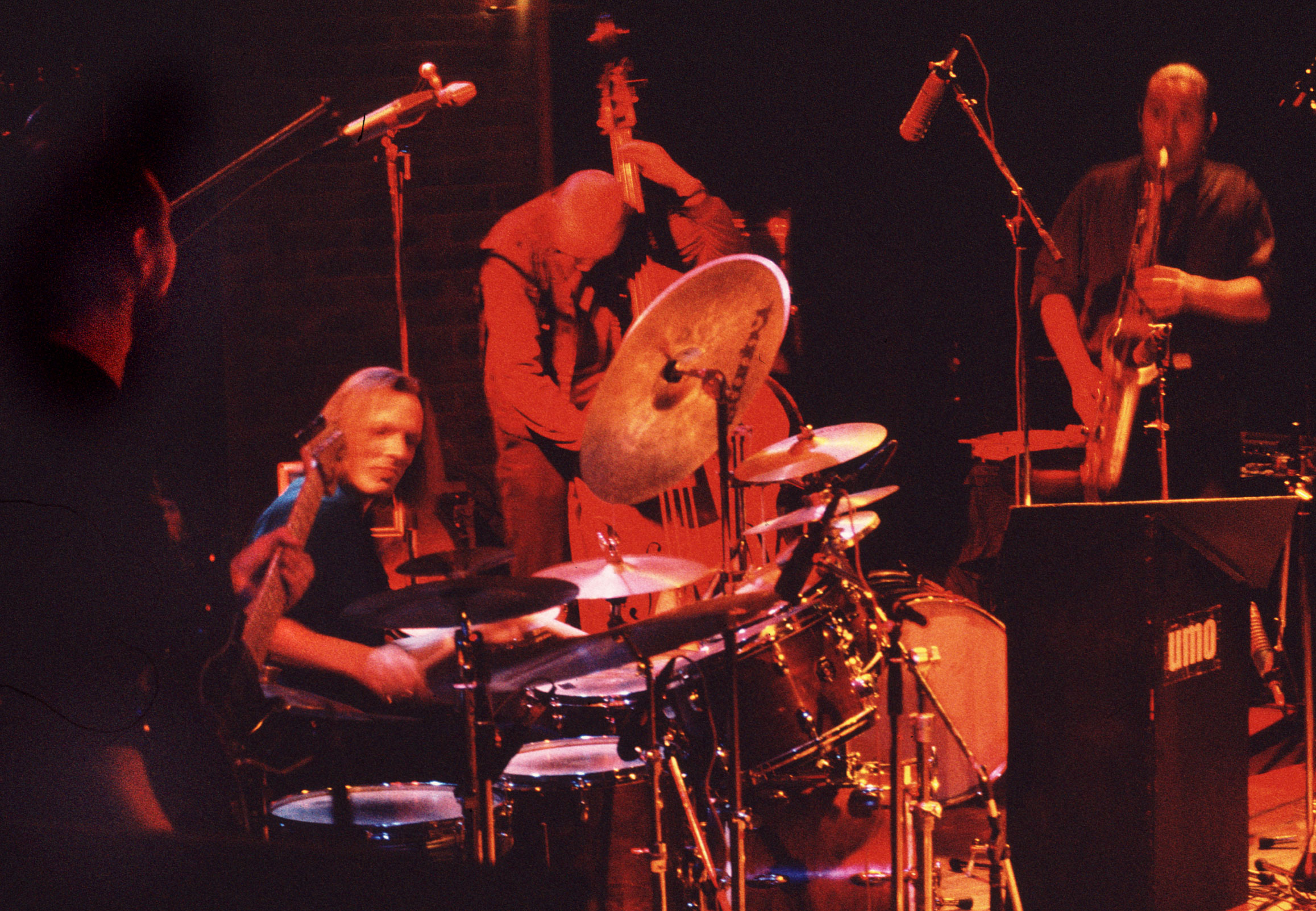 The band Krakatau at Jumo Jazz Club, Helsinki, Finland, 1993. From left: Raoul Björkenheim, Ippe Kätkä, Uffe Krokfors, and Jone Takamäki.